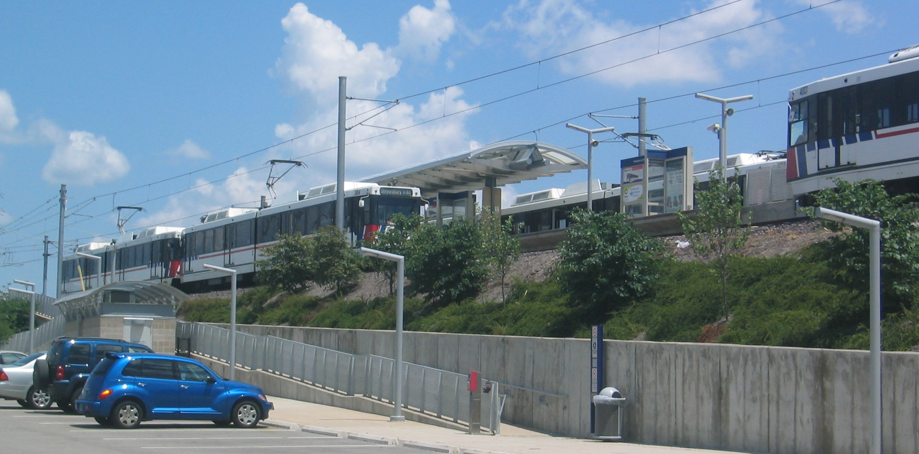 A view of the Shrewsbury-Lansdowne I-44 (St. Louis MetroLink) Shrewsbury-Lansdowne I-44 MetroLink station in St. Louis, Missouri. A westboud/southbound train is pulling into the station.